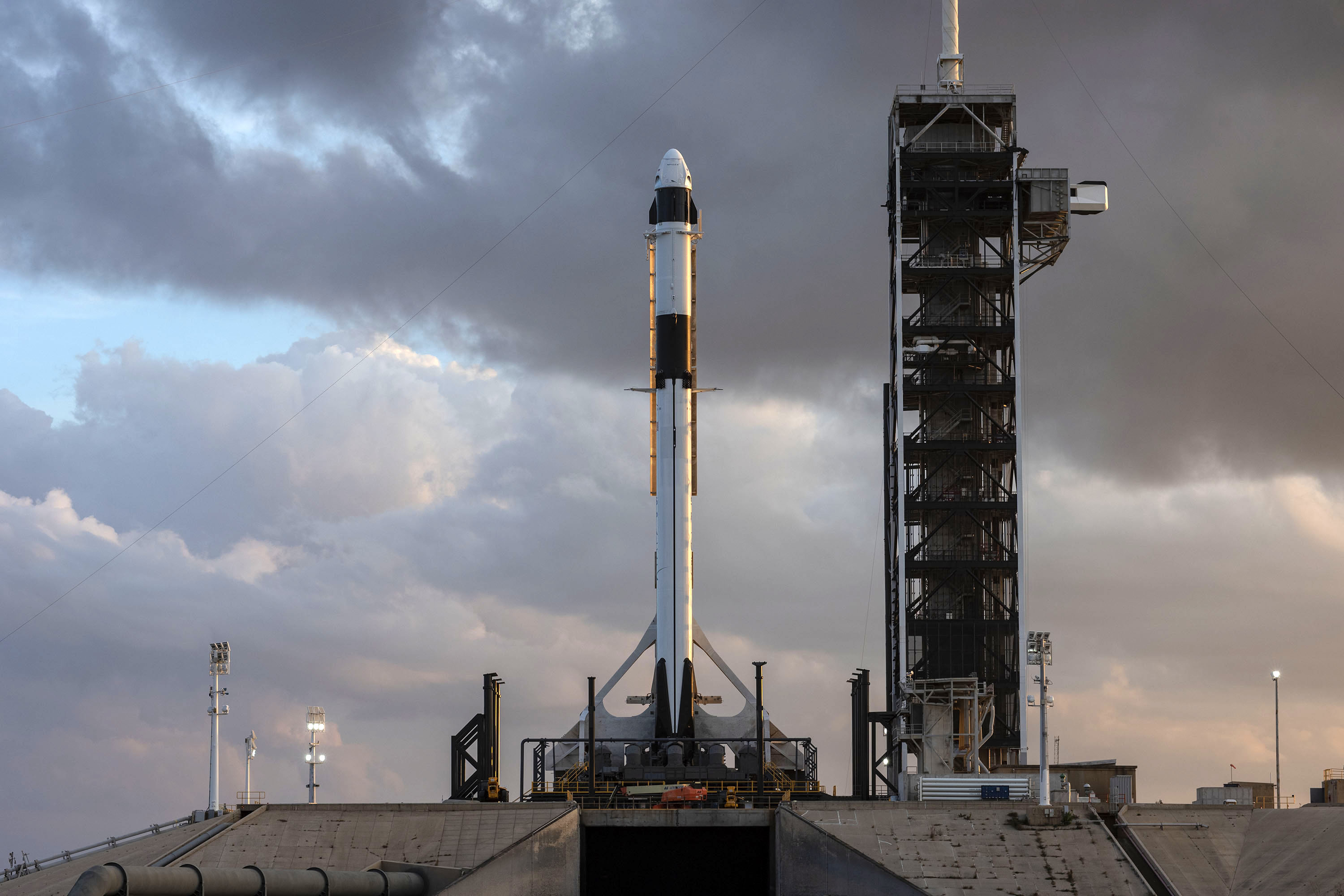 Crew Demo-1 Mission